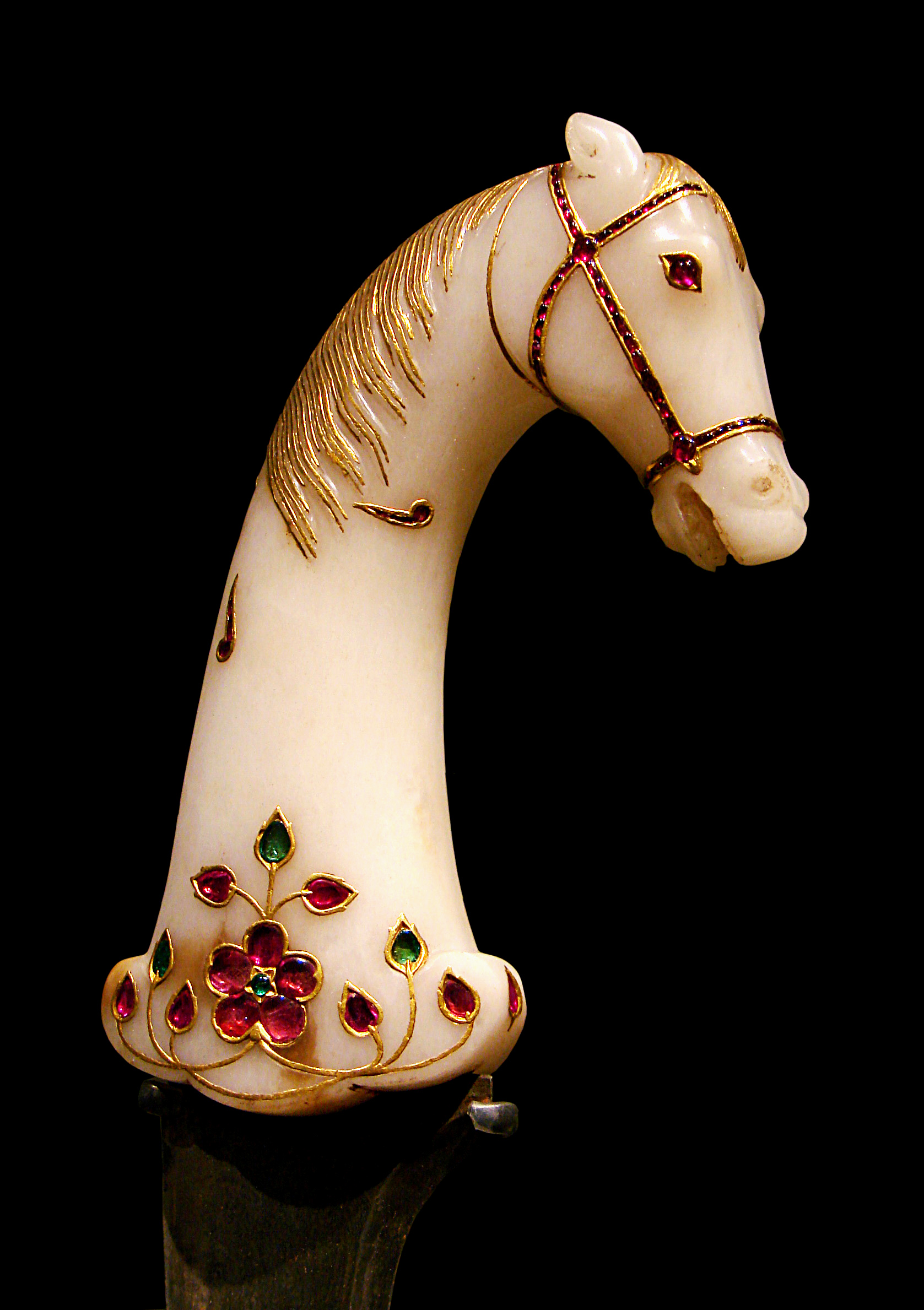 A jade khanjar (dagger) handle shaped as a horse-head. 18th century. It is adorned with jade, gold, ruby, emeralds.